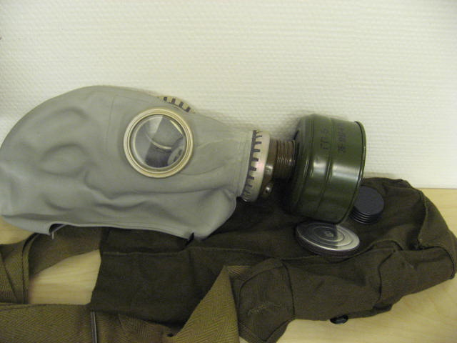 Gas mask